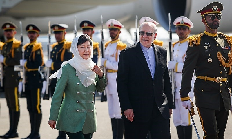 South Korean President arrived Tehran for a state visit